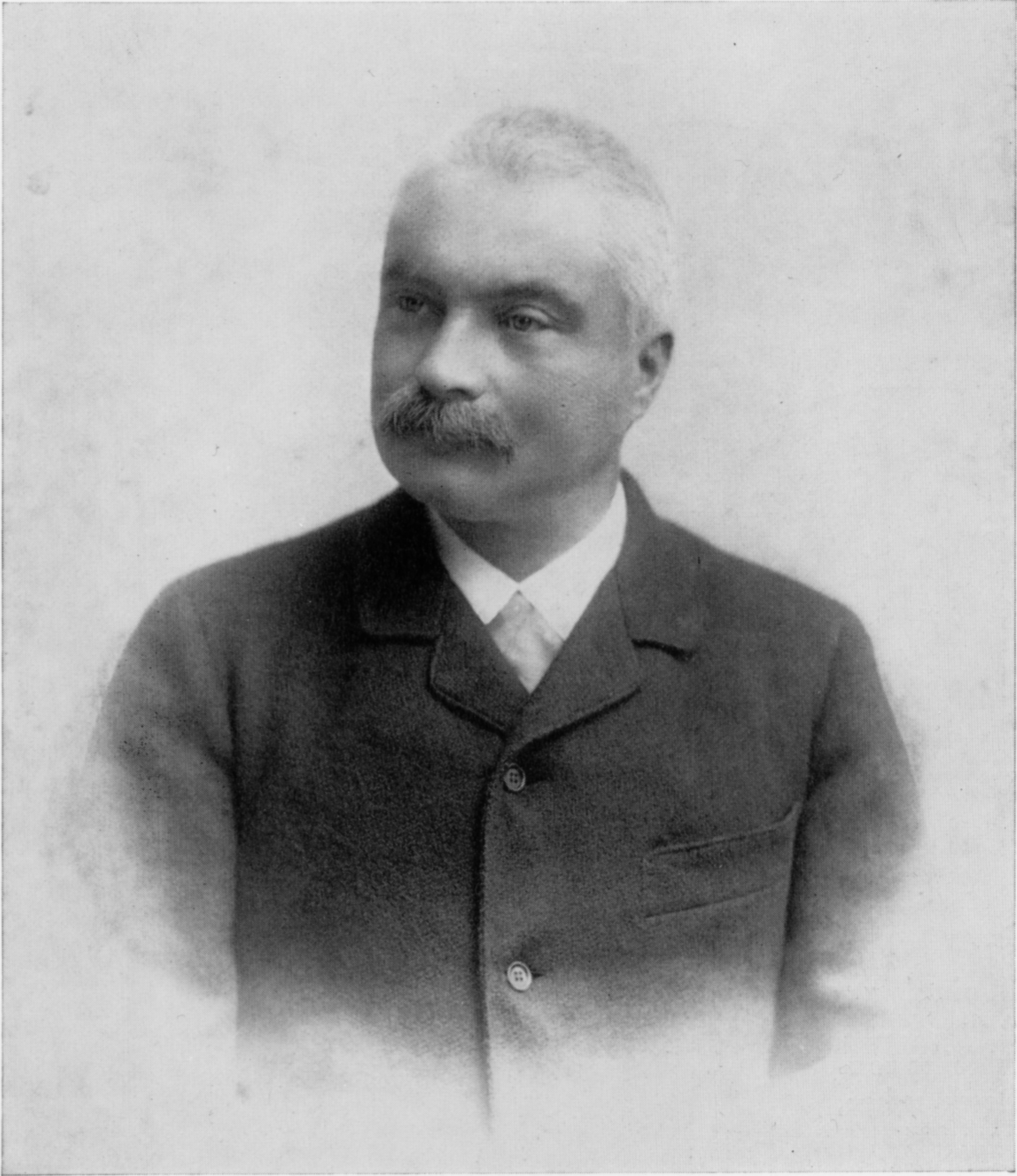 Heilbronn mayor Paul Hegelmaier ca. 1900